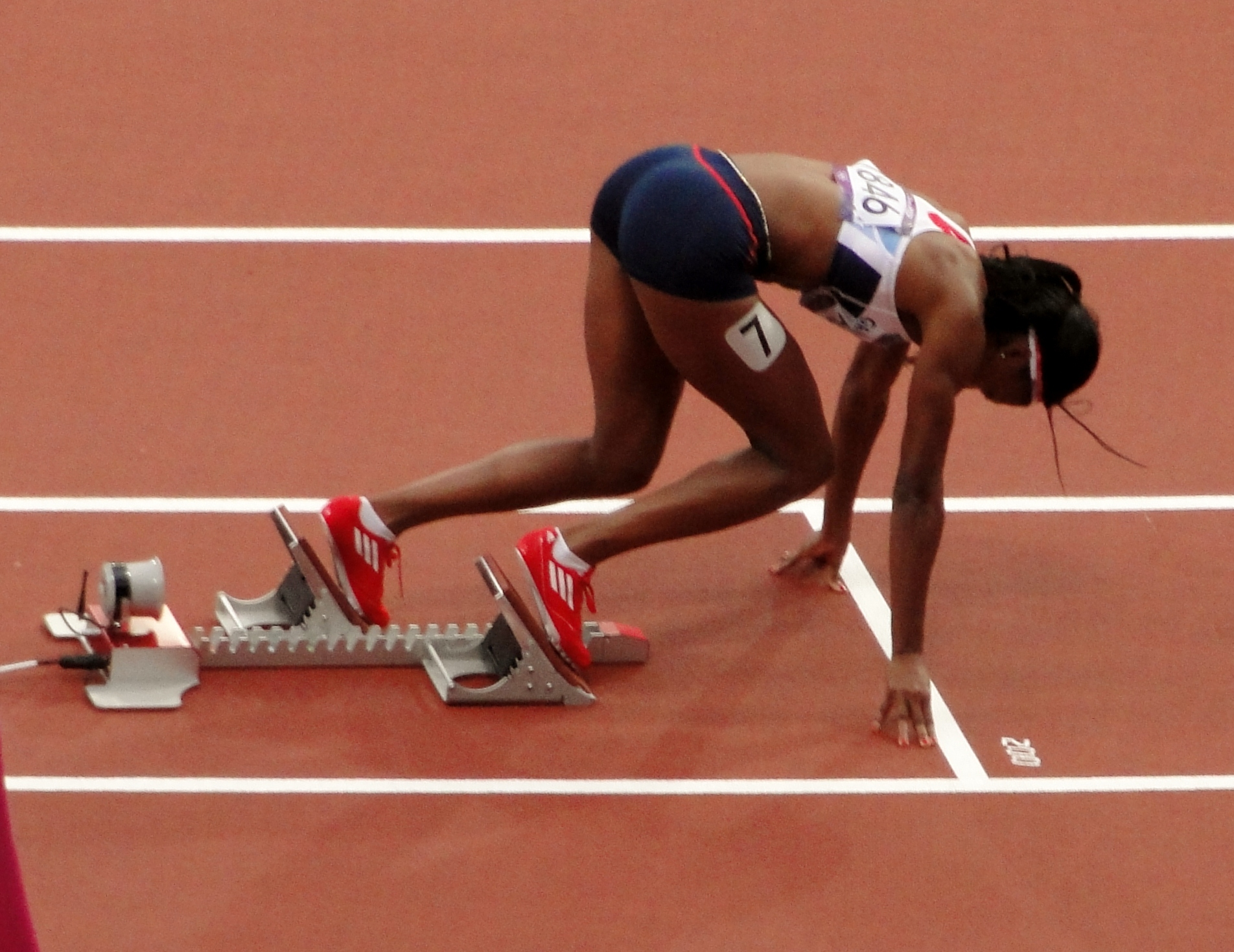 Margaret Adeoye in the first round of the 200m, London 2012 Olympics